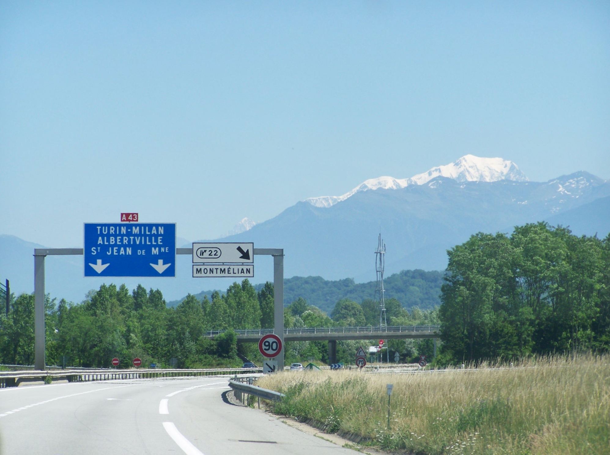 Sight on Mont-Blanc from French motorway A43 to Italy (here in Savoie).